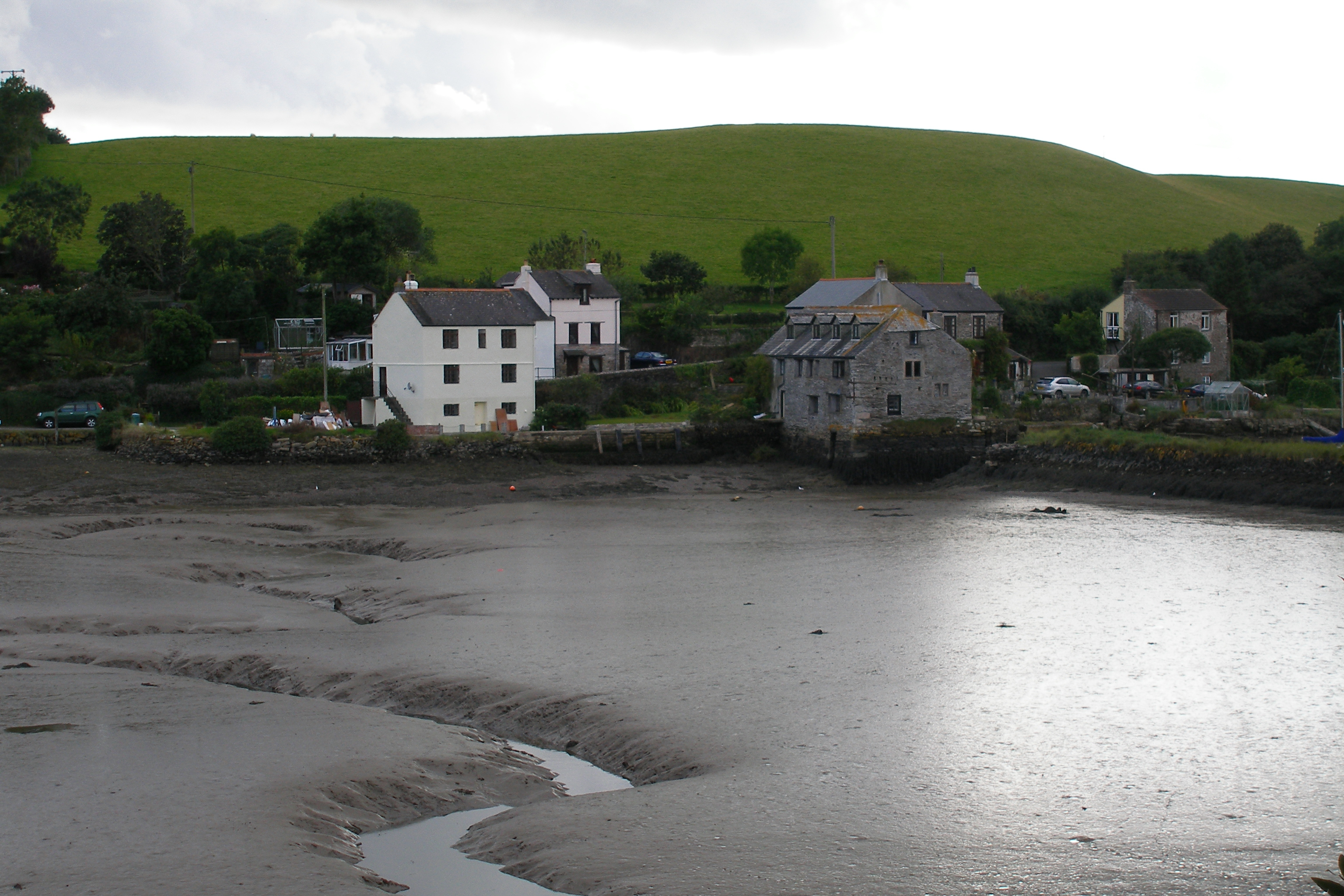 Tidal Mill, Antony Passage, Forder Creek